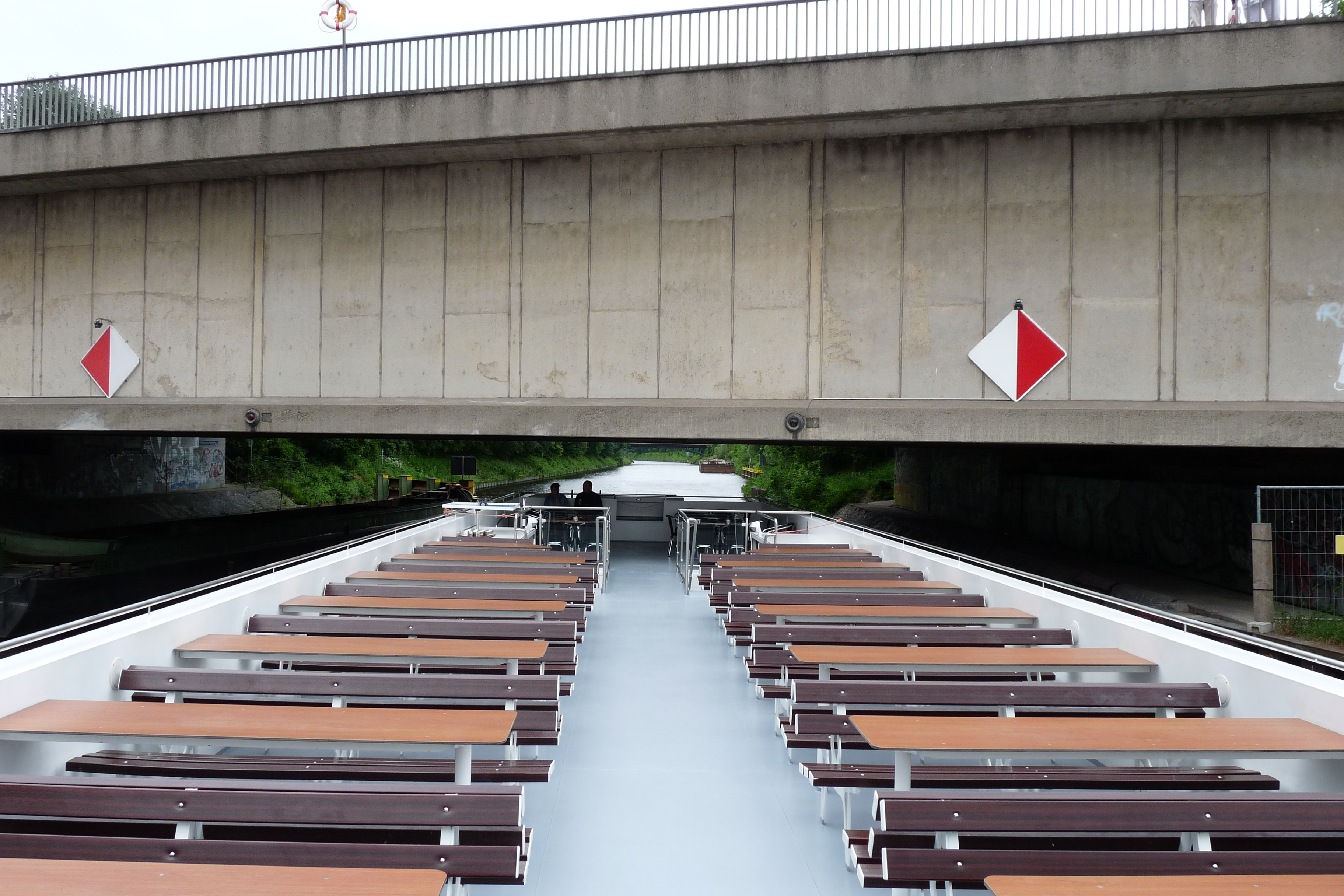 The Stubenrauch Bridge over the Teltow Canal from the east, shortly after passing underneath. The subway runs inside the bridge, below street-level.